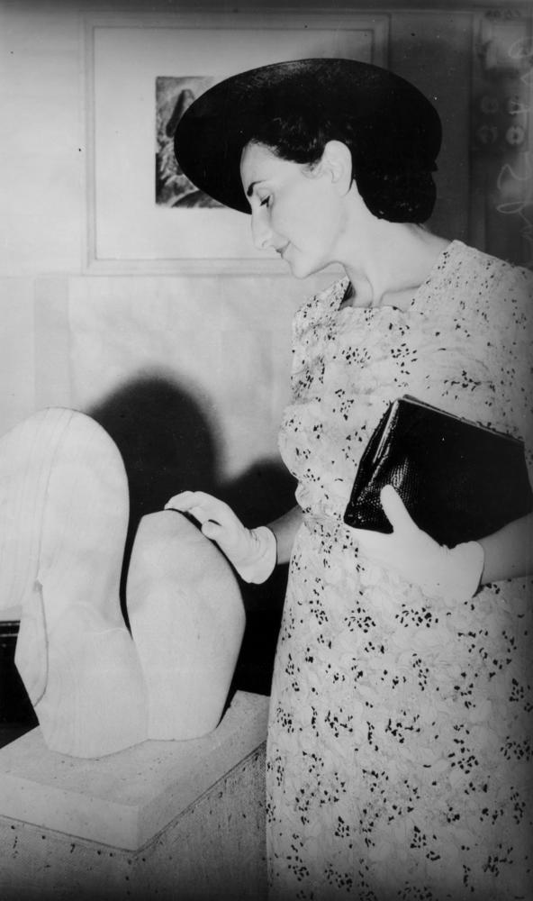 Viennese art critic Dr. Gertrude Langer inspecting a local art show, Brisbane, 1940 Art expert Dr. G. Langer from Vienna, will lecture at the Art Reference Library on Friday. She is pictured examining 'Faun', a carving in Helidon sandstone, which is included in the exhibition being held at the Art Reference Library. The exhibition is being held by Brisbane artist Mr L. G. Shillam. (Description taken from: The Courier Mail, Wednesday 3 April 1940, p. 2). Gertrude Langer, nee Froschl, was born in Vienna in 1908. She married architect Karl Langer in 1932 and they migrated to Australia in 1938. They arrived in Brisbane in 1939. Gertrude became the Courier Mail art critic from 1956 until 1984. She died in September 1984. (Description supplied with photograph).